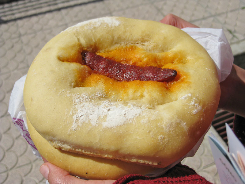 Coca de xoriç, typical Catalan pastry snack. This example is from El Verger, Valencian Country, Spain.